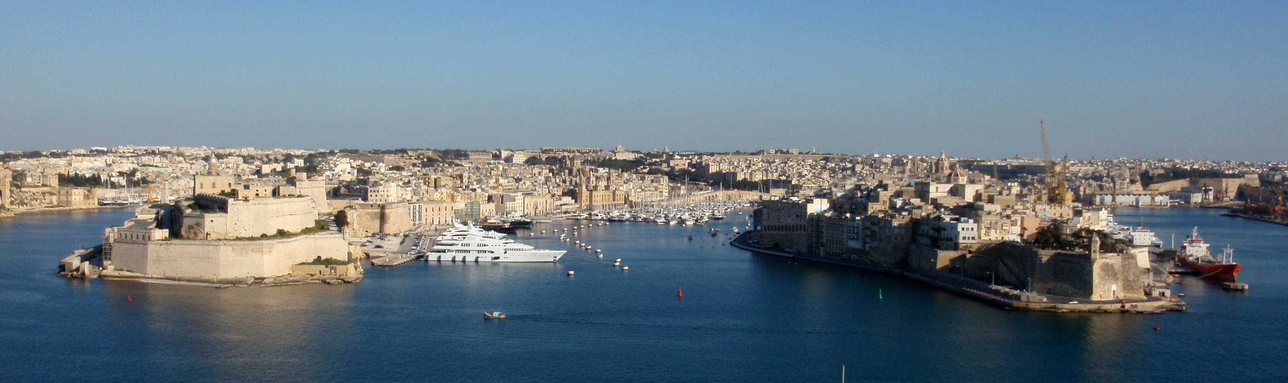 View over Birgu and Senglea, taken from Valetta - 2011